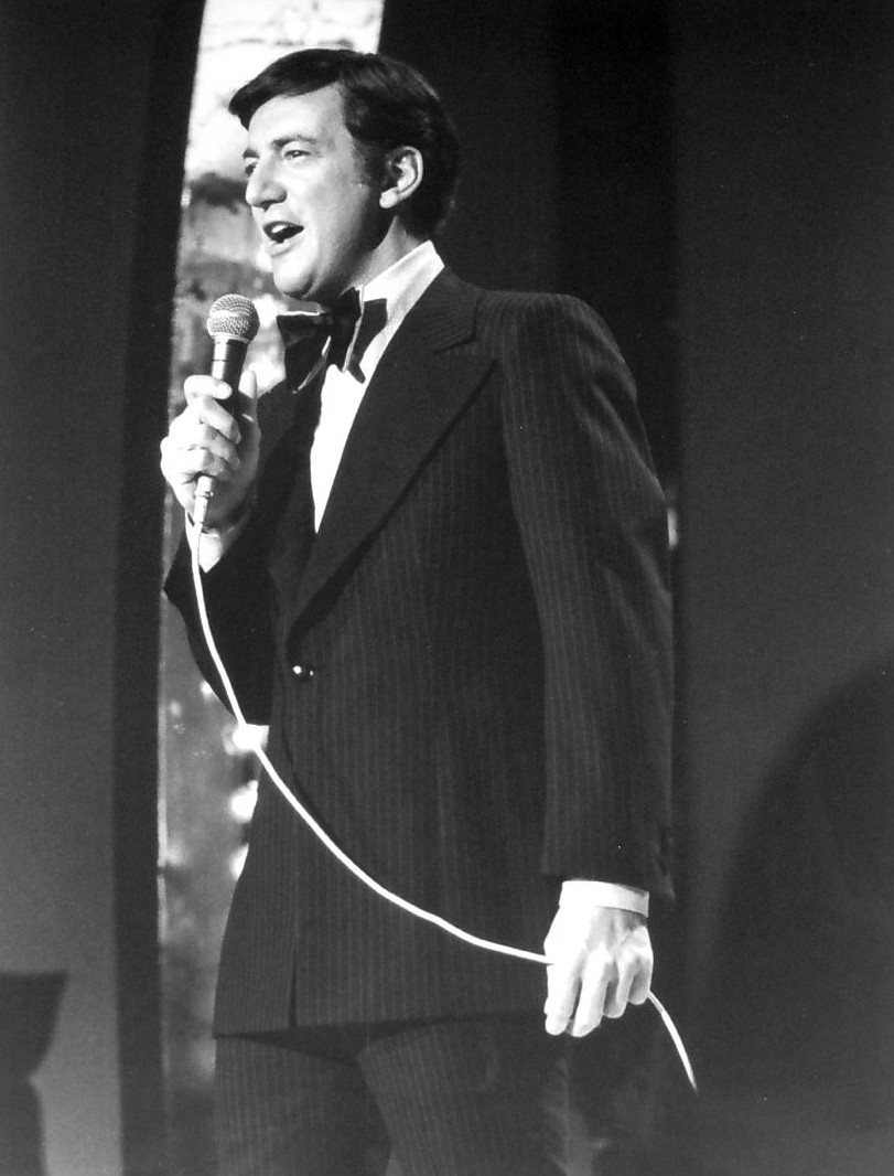 Photo of Bobby Darin performing. Darin's own television show began when he hosted a summer replacement program for The Dean Martin Show.